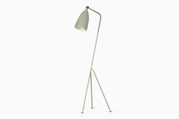 The Gräshoppa lamp